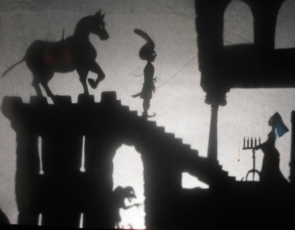 théâtre d'ombre - Theater of shade